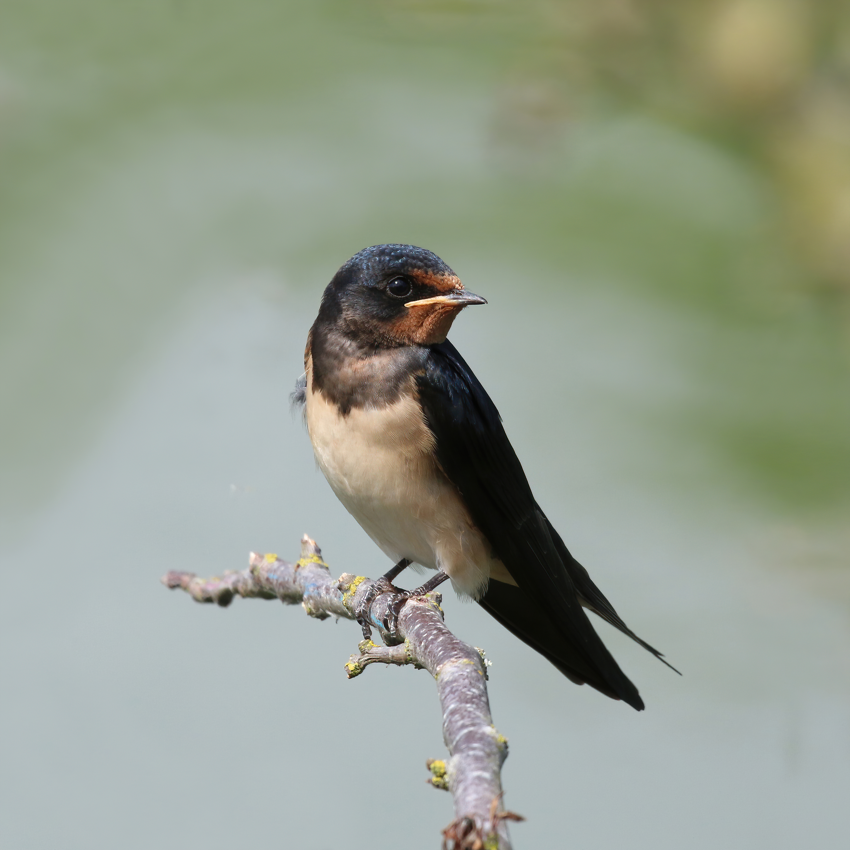 Barn swallow (Hirundo rustica rustica), Farmoor, Oxfordshire